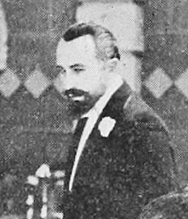 J. Herbert Frank as Don Rodrigues in a still from the American comedy film Dodging A Million (1918).